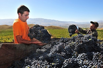 viticulture in Vayots dzor